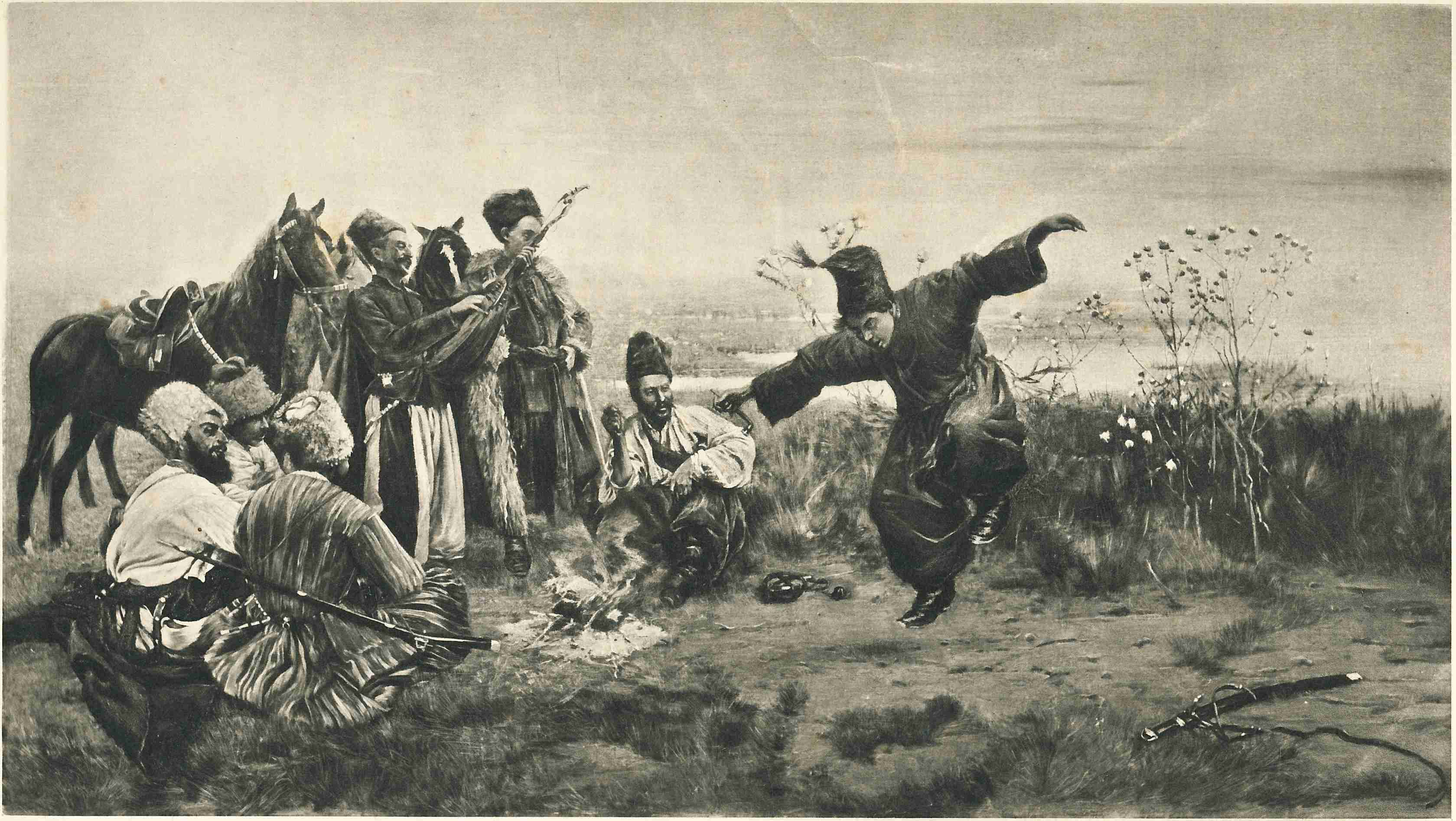 It's my own copy of reproduction of Stanisław Masłowski painting entitled: Cossacks Dance, oil on canvas, 1883